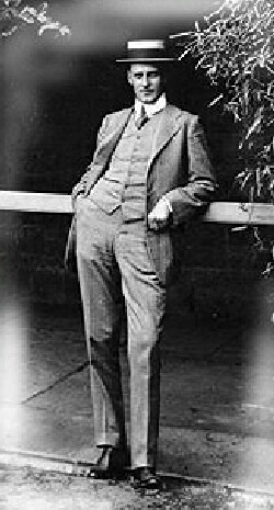 Edwin Flack during the 1896 Olympics - The First Olympic Champion in 800 and 1500 m run